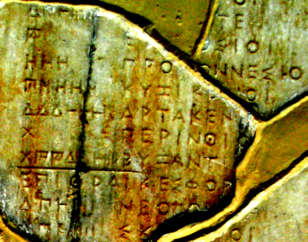 Detail of stela #1 showing tributes paid by Greek cities that were allies of Athens in the League of Delos, from 454/3 to 440/39 BCE. Each year the name of each city, and 1/60 of the amount paid (ostensibly donated to the godess Athena), were engraved on these stelae. The amount is written in the old Attic (Herodinian, acrophonic) number system, with the drachma symbol "𐅂" instead of the generic unit "Ι". This cropped and contrast-stretched version was created to illustrate the article.